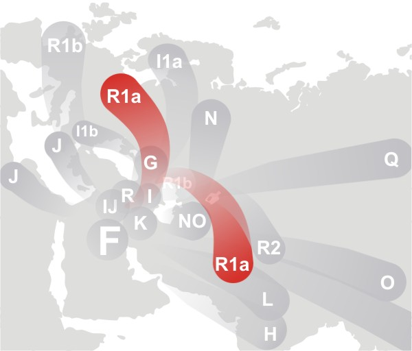 map showing the diversion of Haplogroup R1a (Y-DNA) and its descendants. Based on Kurgan hypothesis